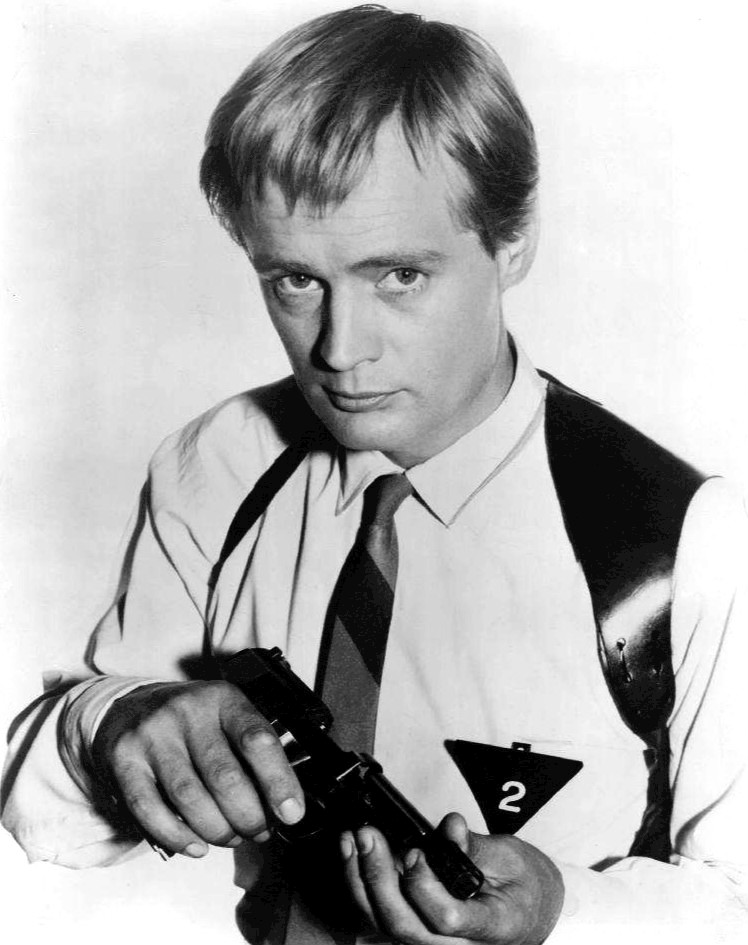 Photo of David McCallum as Illya Kuryakin, from The Man From U.N.C.L.E..